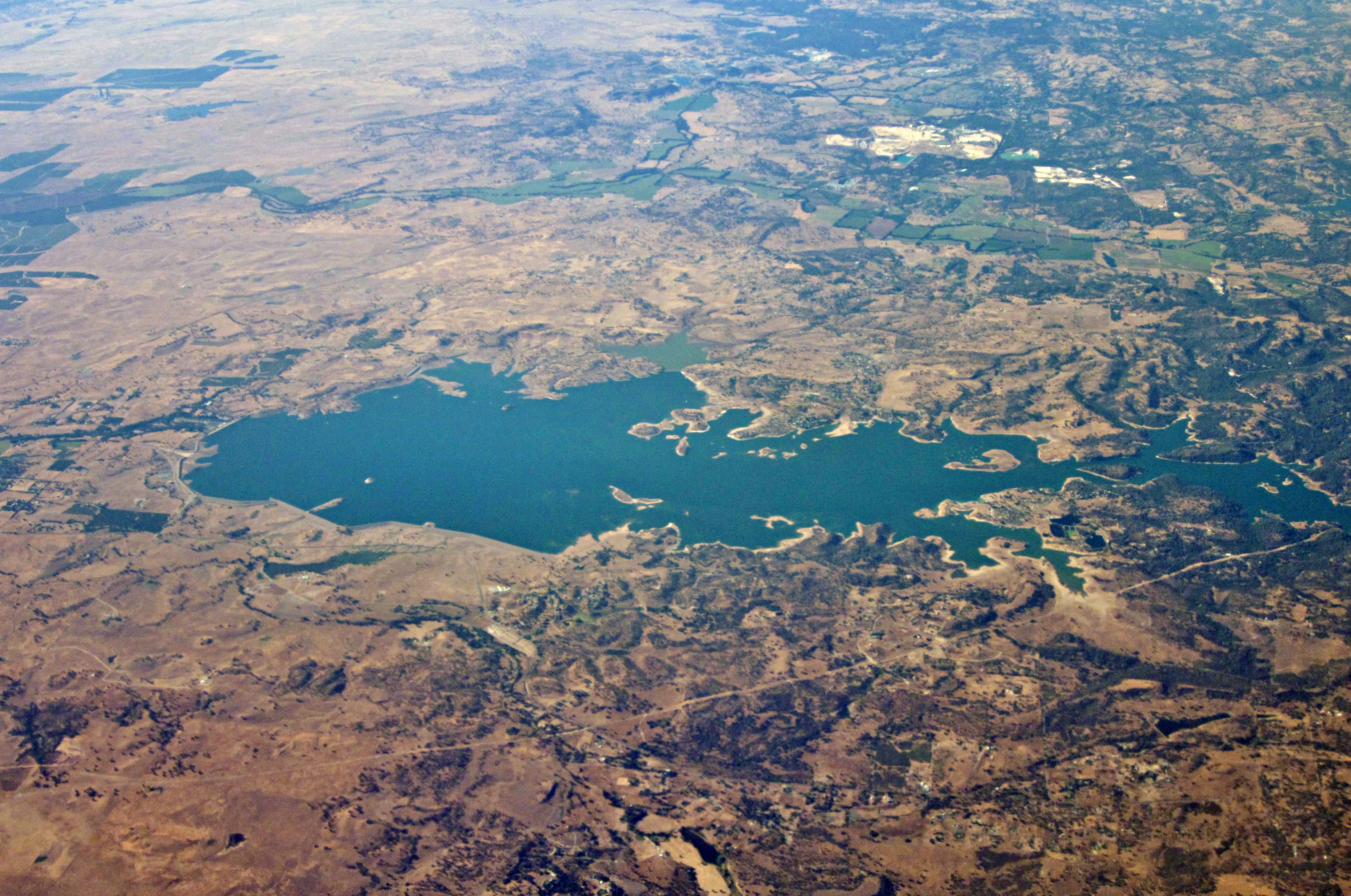 Aerial image of Camanche Reservoir from an Airbus 320 en route from San Francisco to Austin.